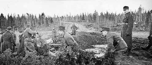 Finnish service corps advancing roadside. Road blasted off by retereating Germans during Lapland War in Finland